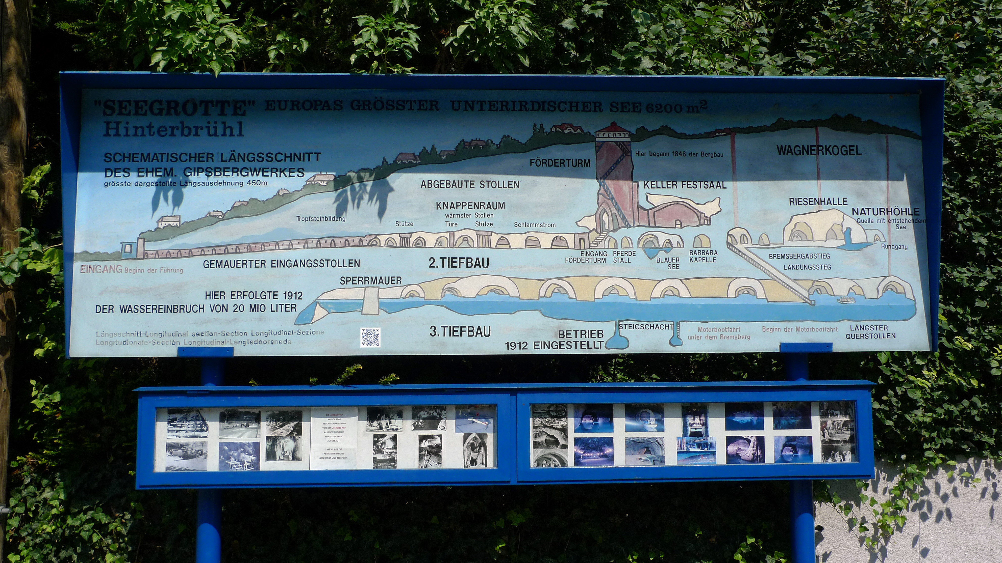 Former mine Seegrotte in Hinterbrühl, Lower Austria - plan of complex.